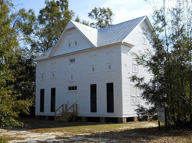 W.J. Quarles House located in Long Beach, Harrison County, Mississippi, USA. House was moved from original location. Undergoing restoration in 2013.